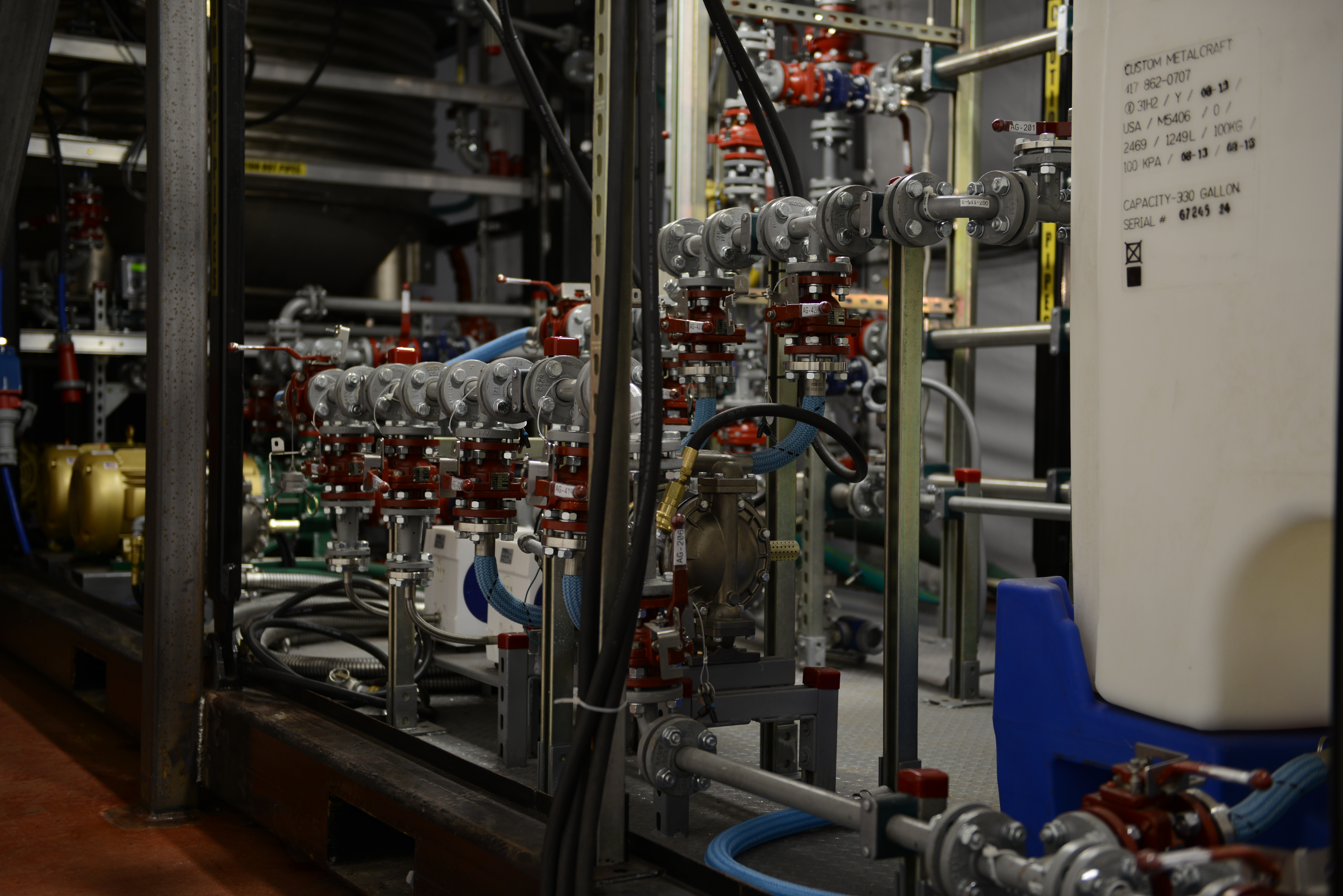 A field deployable hydrolysis system, designed to neutralize chemical weapons, is seen aboard the container ship MV Cape Ray (T-AKR 9679) in Portsmouth, Va., Jan. 2, 2014. Two were installed on the ship. Each $5 million system could process 5 to 25 metric tons of material a day, depending on the material. The U.S. government-owned Cape Ray was modified and deployed to the eastern Mediterranean Sea to dispose of Syrian chemical weapons in accordance with terms Syria agreed to in late 2013.